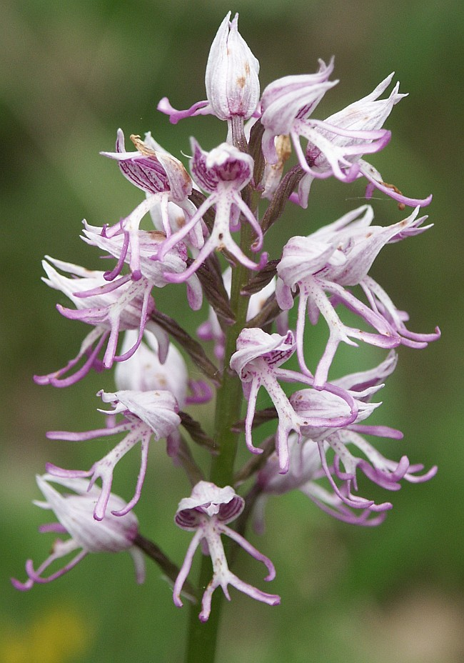 Orchis simia, flowers